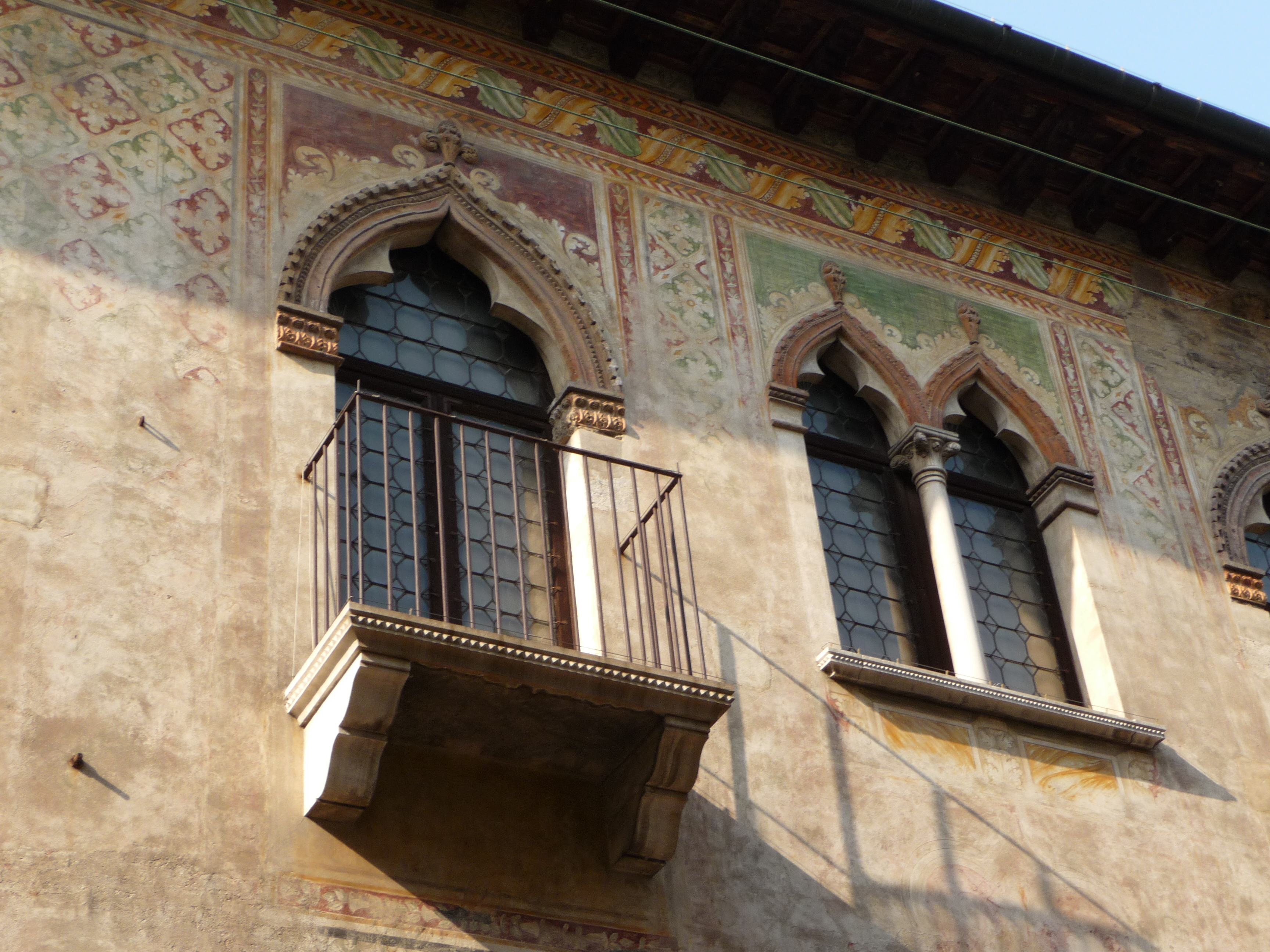 particular of Ca da Noal's facade in via Canova in Treviso (IT)